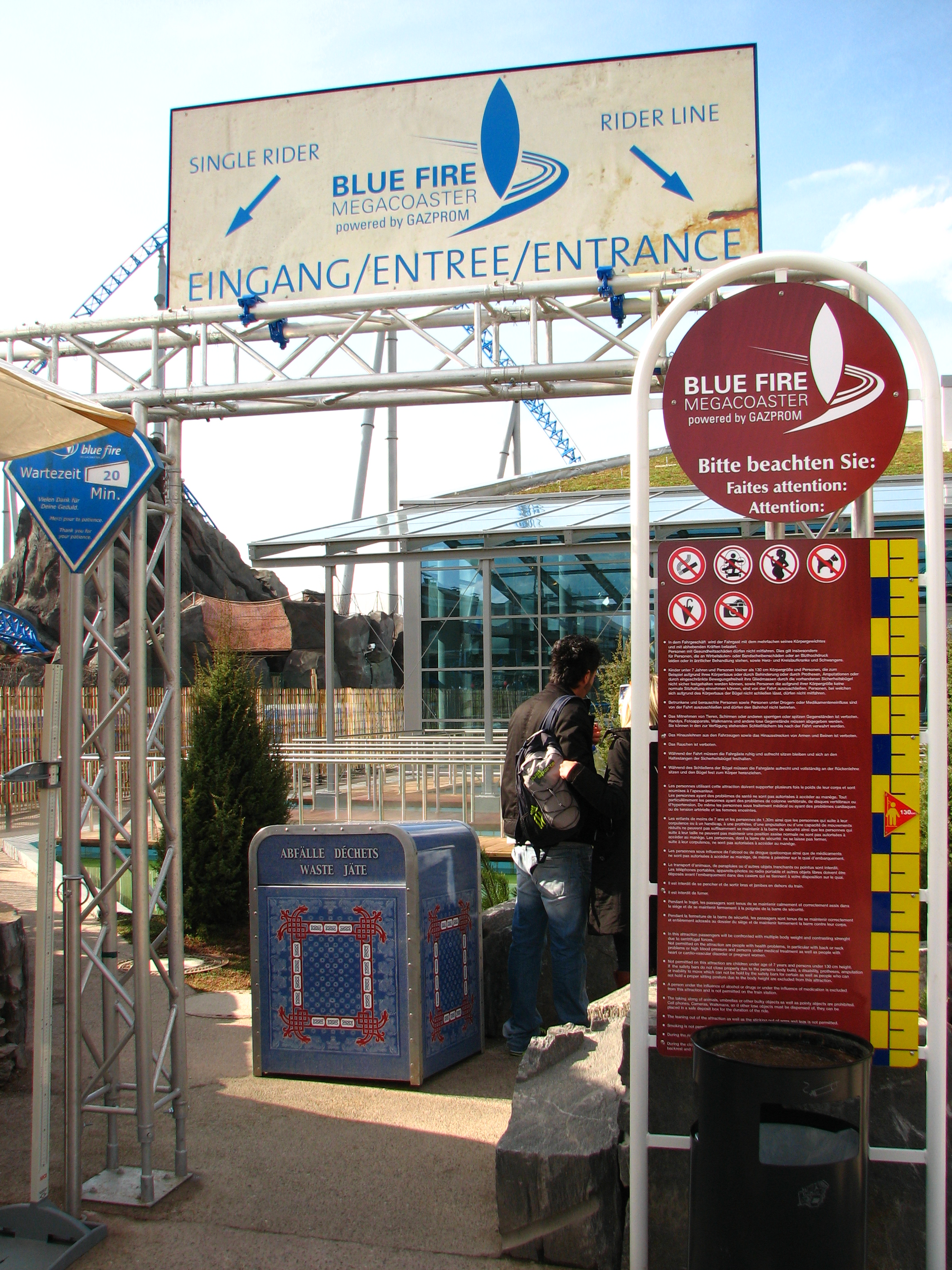 Blue Fire Megacoaster, Europa-Park, Rust, Baden-Württemberg, Germany.